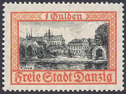 Stamp of Danzig Michel catalogue No. 297 Oliva castle (289-297) Issued July, 1938